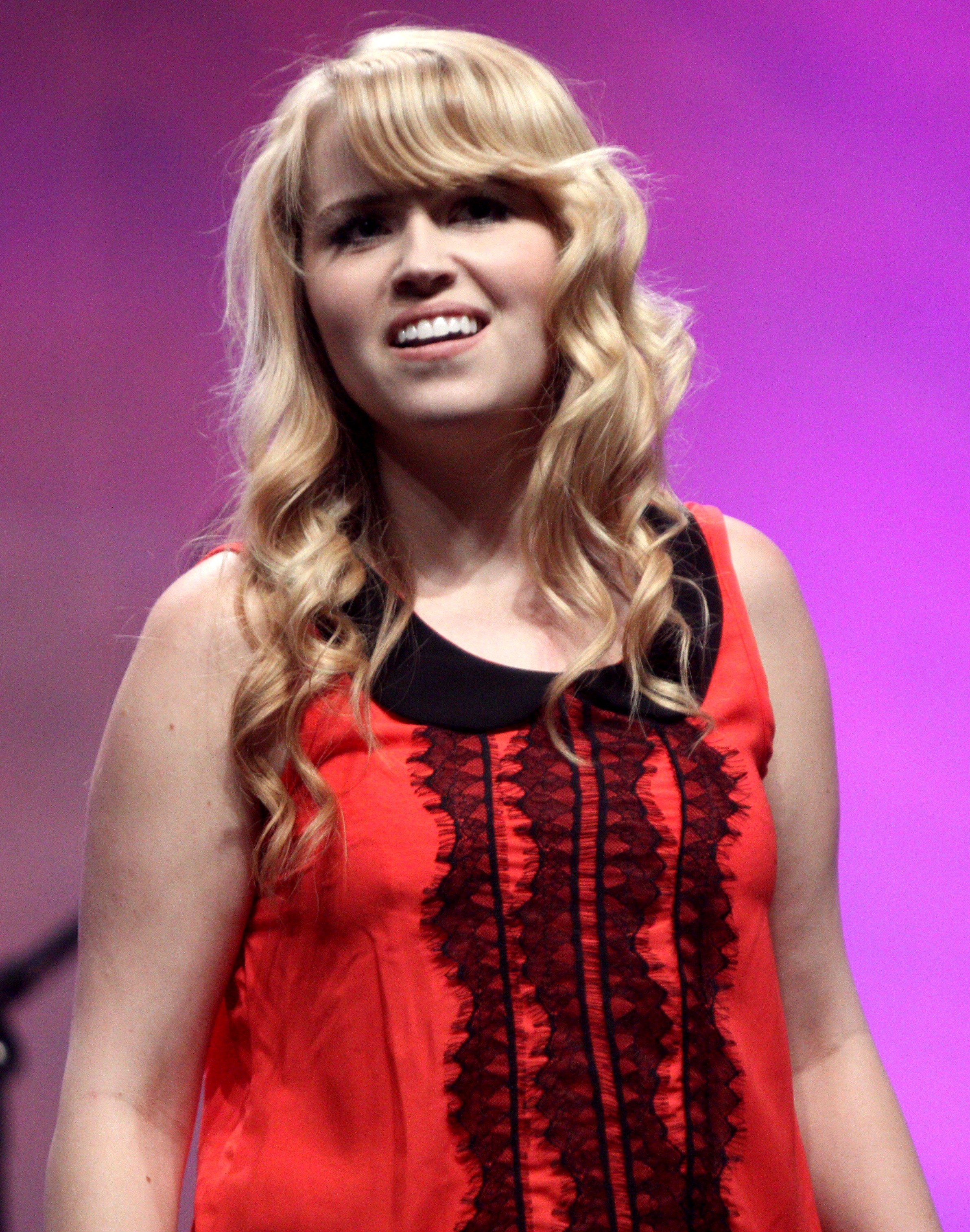 Lee Newton speaking at VidCon 2012 at the Anaheim Convention Center in Anaheim, California.